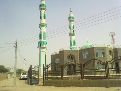 aldioumab mosque